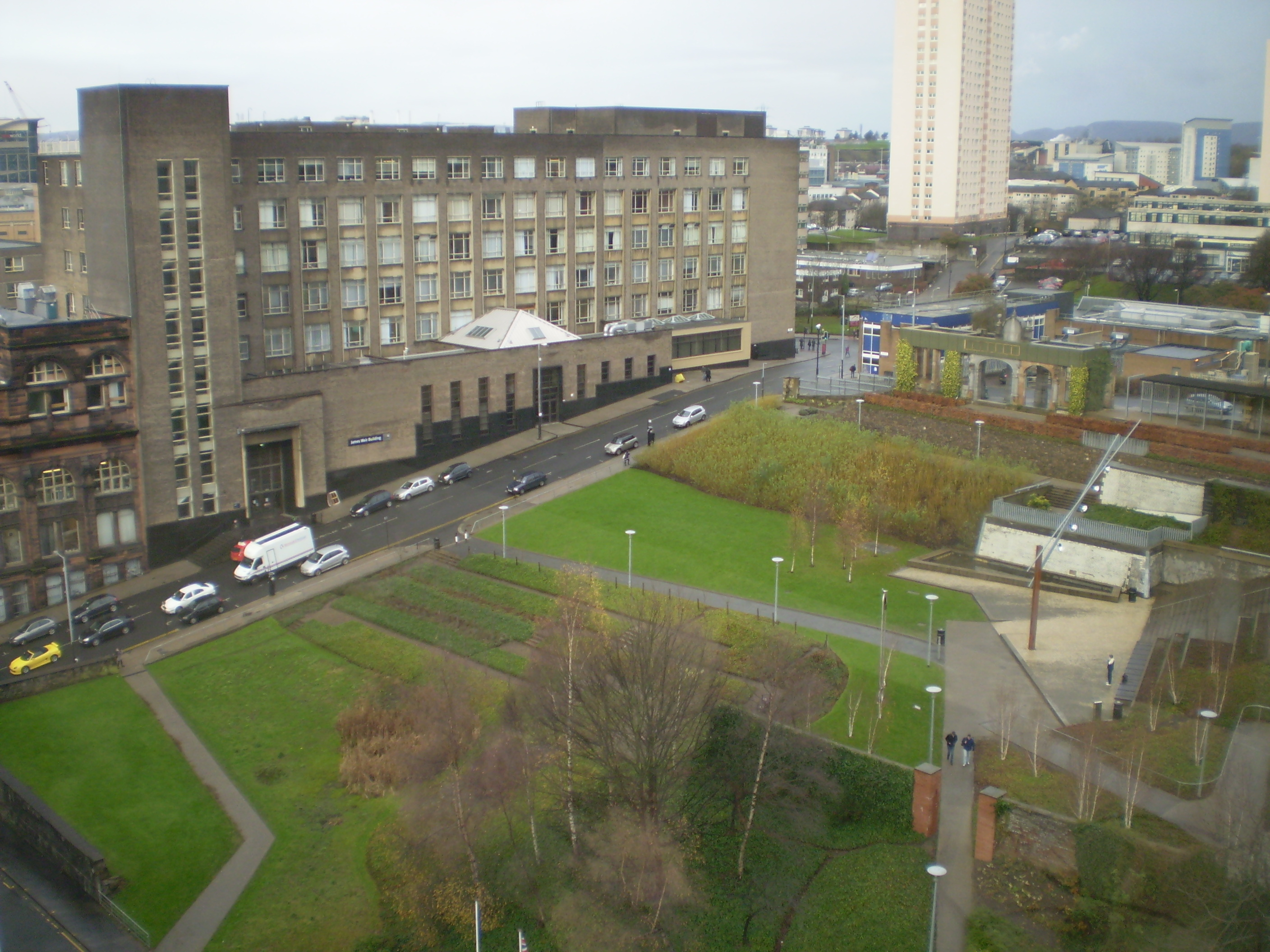 Aerial view of the John Anderson Campus, Strathclye University, Scotland.